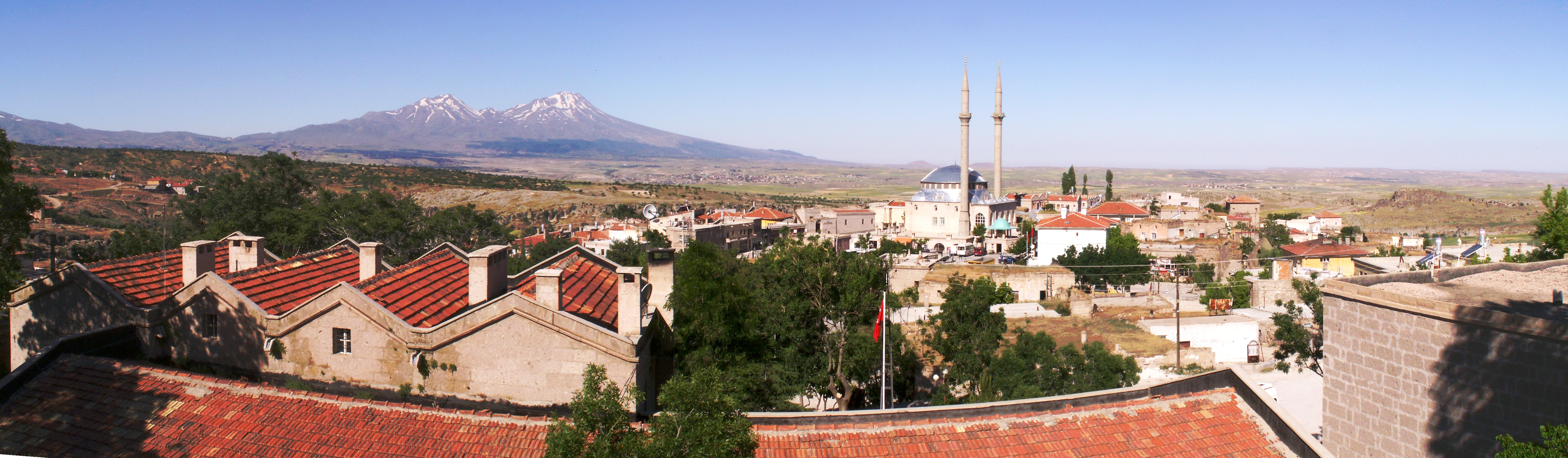 Güzelyurt, Cappadocia, with Mount Hassan in the background